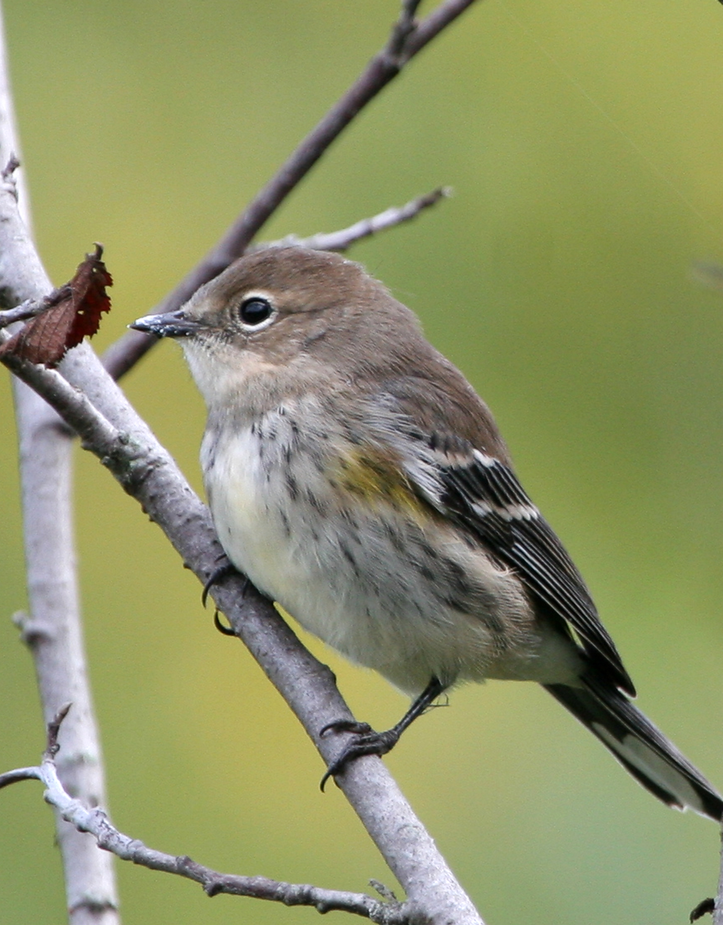 Yellow-rumped Warbler (Dendroica coronata). Photo was taken at BLM Campbell Tract, Anchorage, Alaska